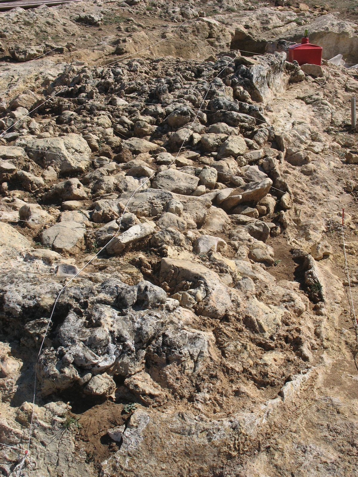 Des-Cubierta Cave (Calvero de la Higuera, Pinilla del Valle, Madrid, Spain). Infilling breccia and cave wall discovered by erosion. The wall is at the right of the image and closes towards the bottom. The filling stands out by differential erosion.